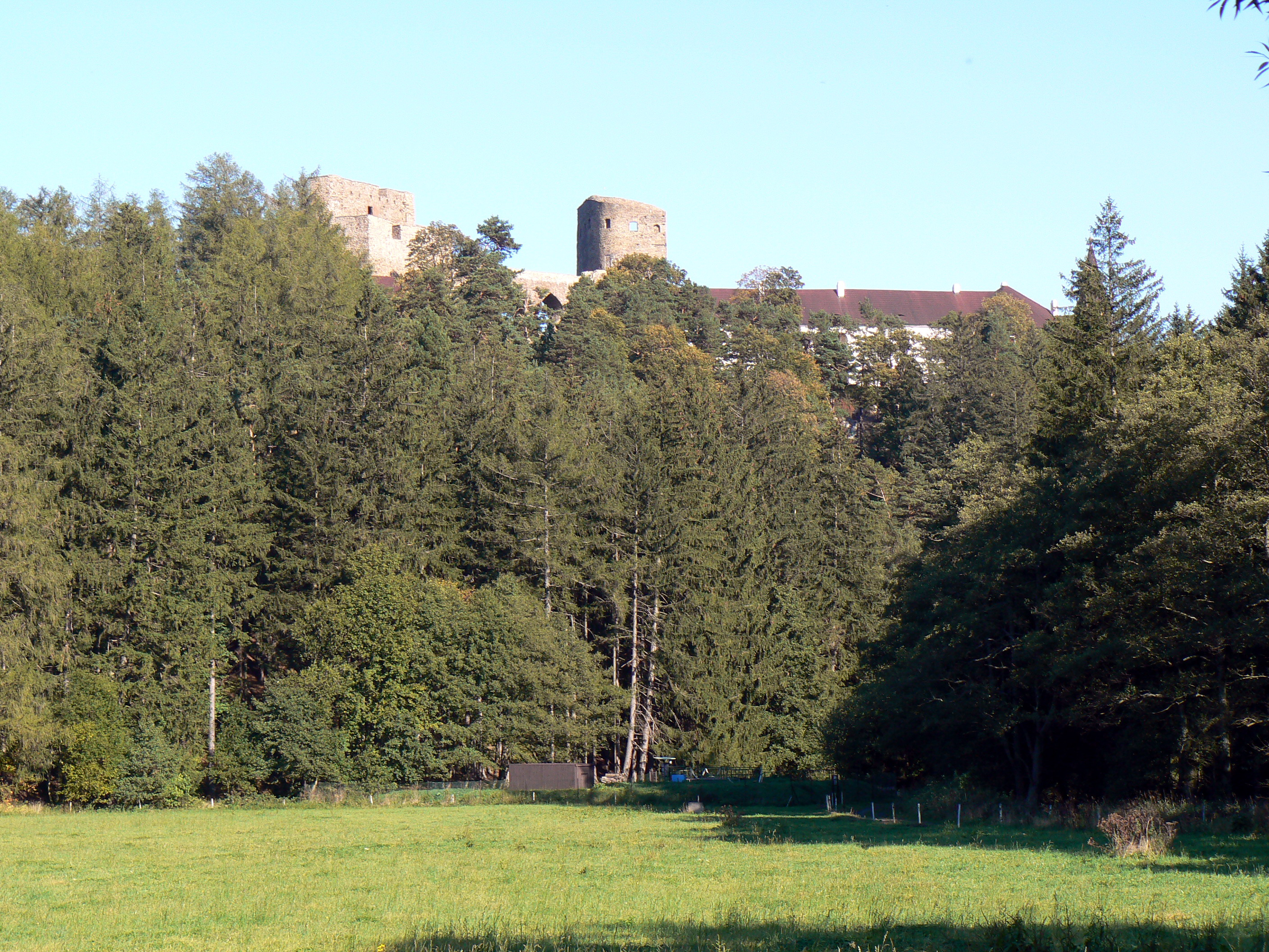 Hrad Velhartice (Czech Republic)